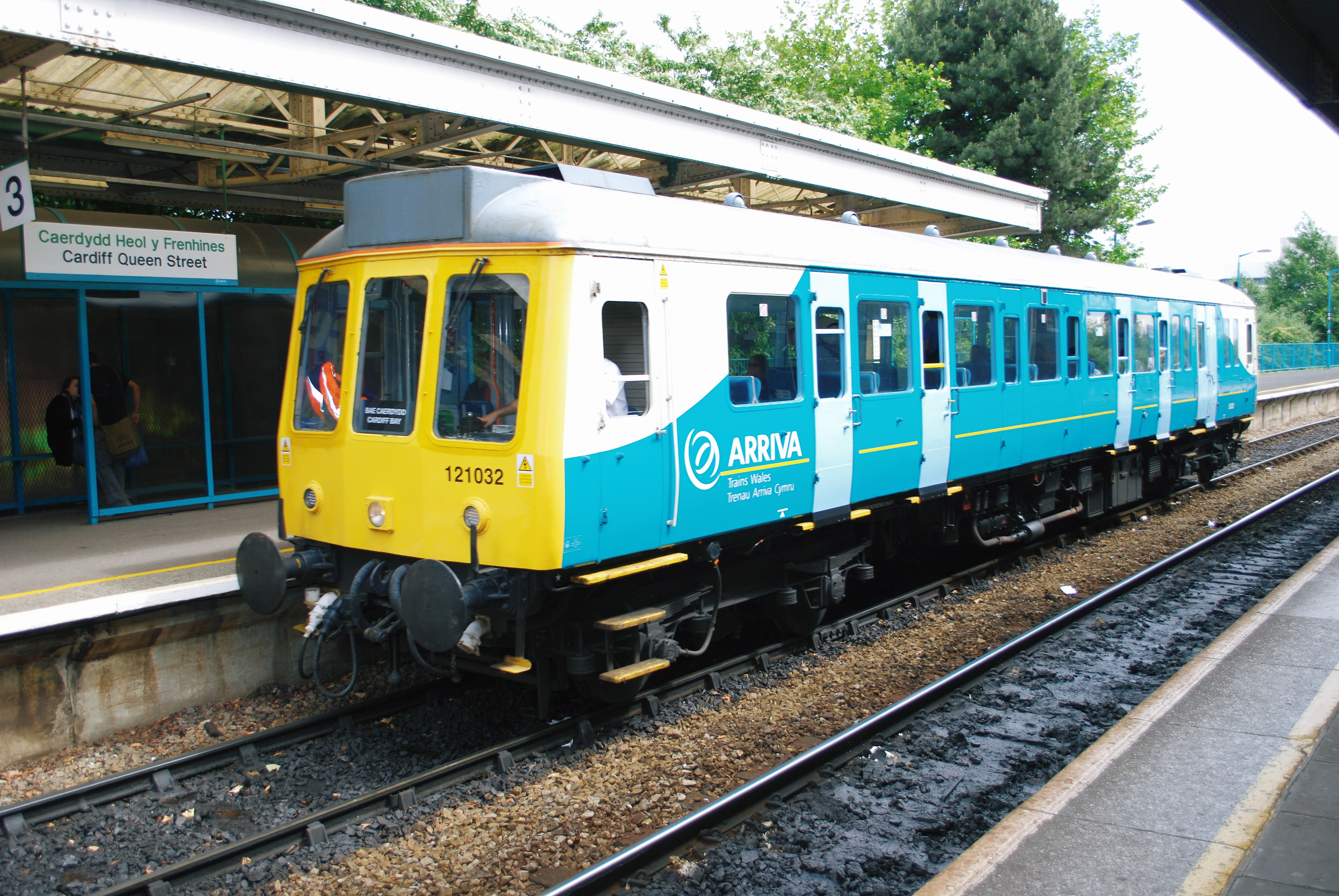 Pressed Steel Class 121 Railcar No. 121032 of Arriva Trains Wales at Cardiff Queen Street station on the Cardiff Bay shuttle, 15 June 2009